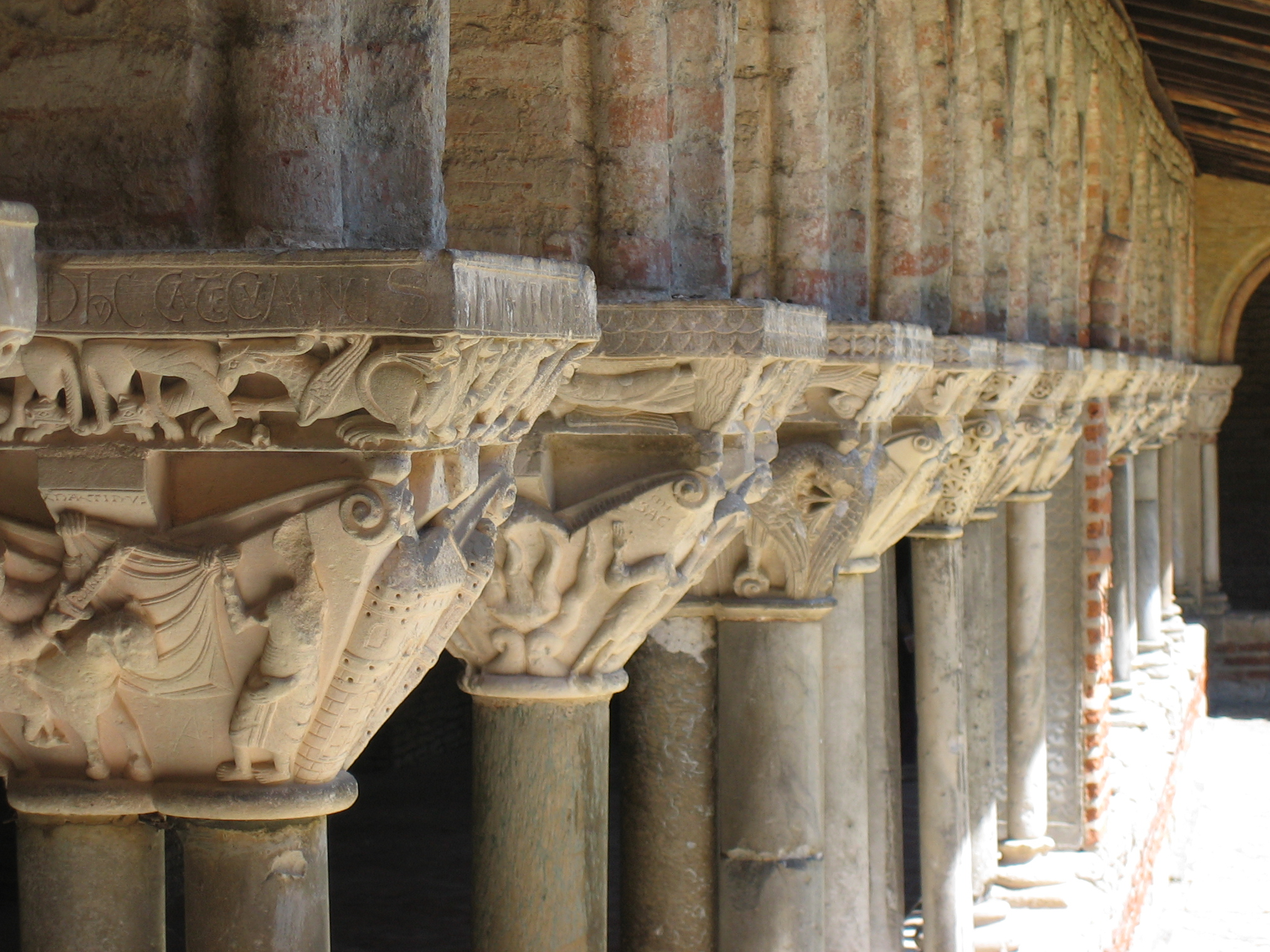 Moissac, Capitals of the cloisters of Mossaic Abbey